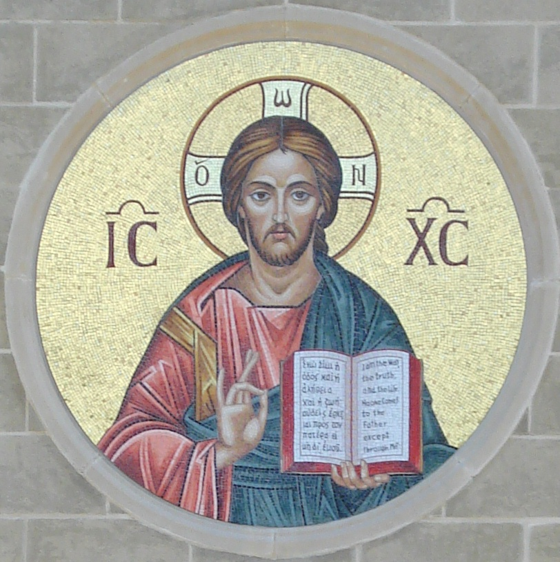 Photo by Argos'Dad of icon on the outside of Annunciation Greek Orthodox Cathedral in Houston, Texas.